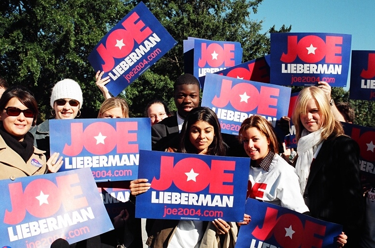 Democratic National Committee Fall Meeting at the Washington Marriott Wardman Park Hotel at 2660 Woodley Road, NW, Washington DC on Friday, 3 October 2003 by Elvert Barnes Protest Photography Joe Lieberman Presidential Campaign 2004 Elvert Barnes PROTEST PHOTOGRAPHY at